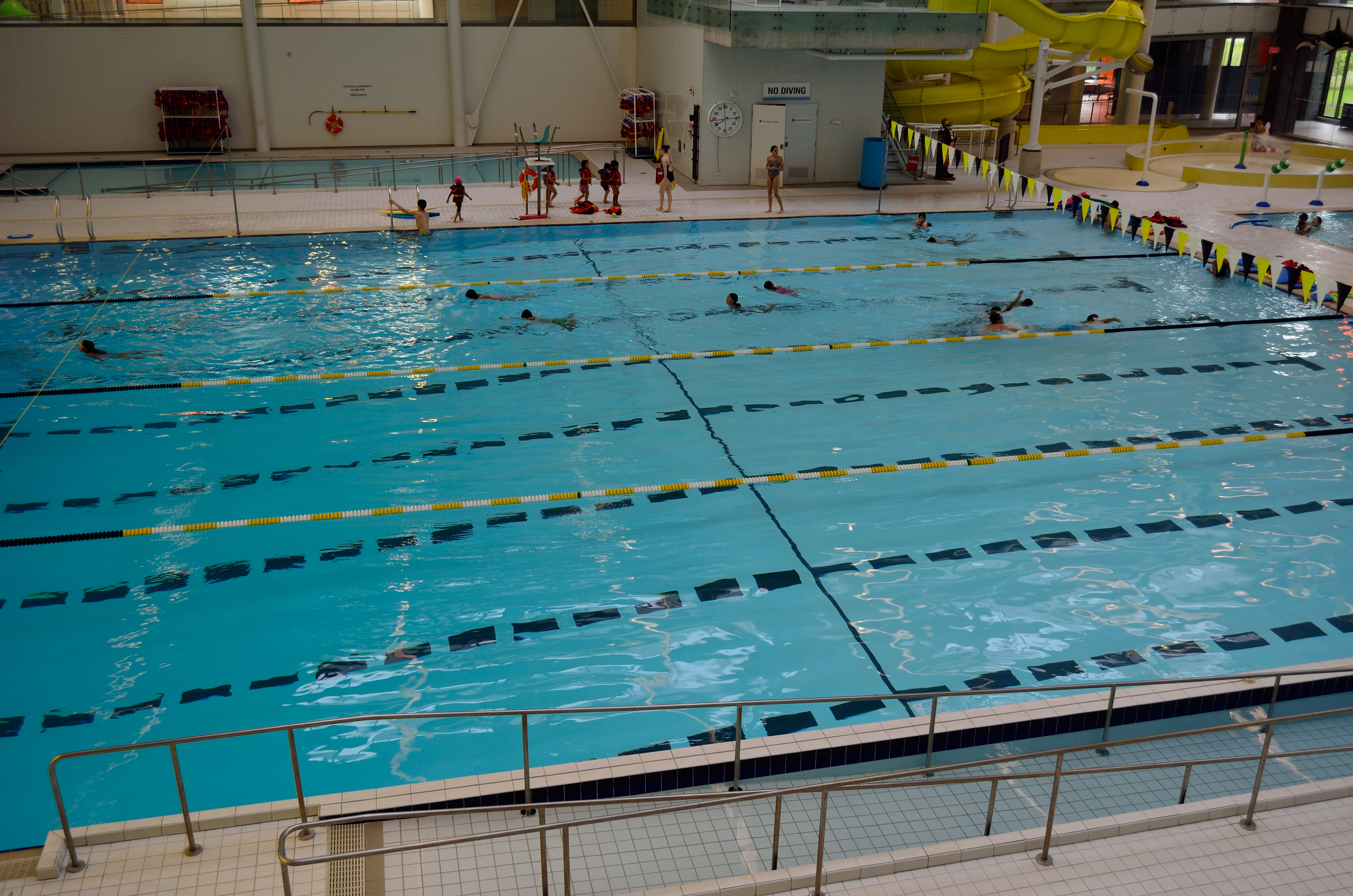 Swimming Pool at Cornell Community Centre